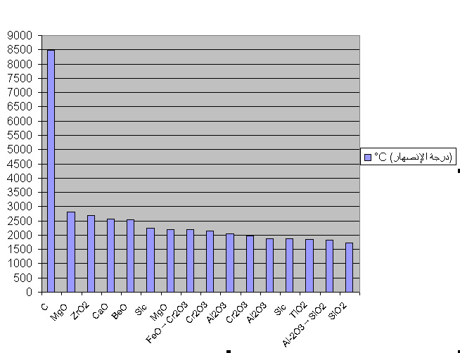 درجات انصهار الحراريات